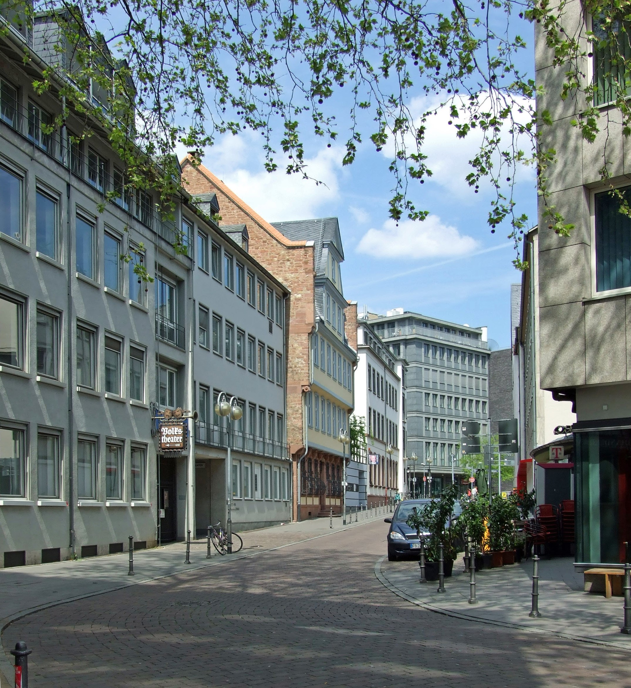 Goethe-House, Grosser Hirschgraben, Frankfurt am Main Innenstadt